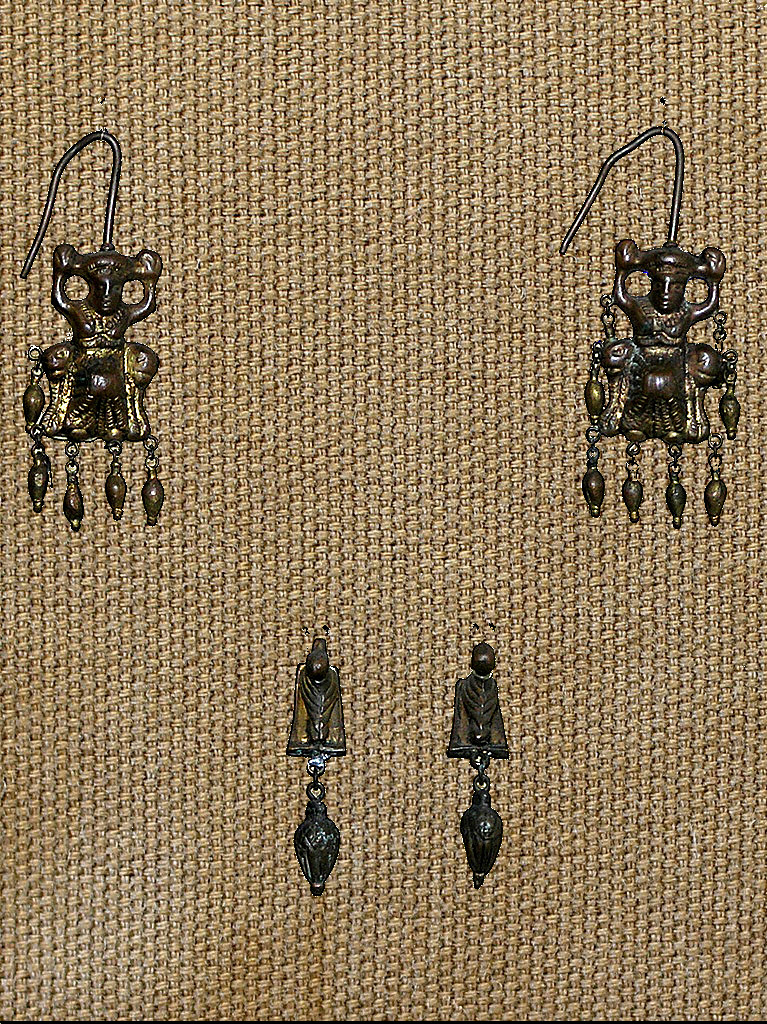 Trypillia culture earings representing a goddess. The photo was taken by Petro Vlasenko at the Trypillia Museum and uploaded with his permission as GDFL. Attribution information, such as the author's name, e-mail, website, or signature, that was once visible in the image itself has been moved into the image metadata and/or image description page. This makes the image easier to reuse and more language-neutral, and makes the text easier to process and search for. Commons discourages placing visible author information in images.